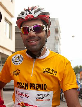 Brazilian rider Magno Nazareth with the golden jersey of leader of Vuelta del Uruguay (2012)